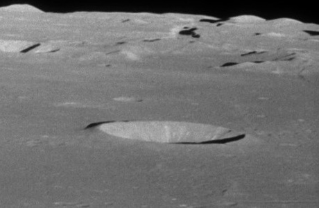 Highly oblique view of Manners, on the moon. Facing west.